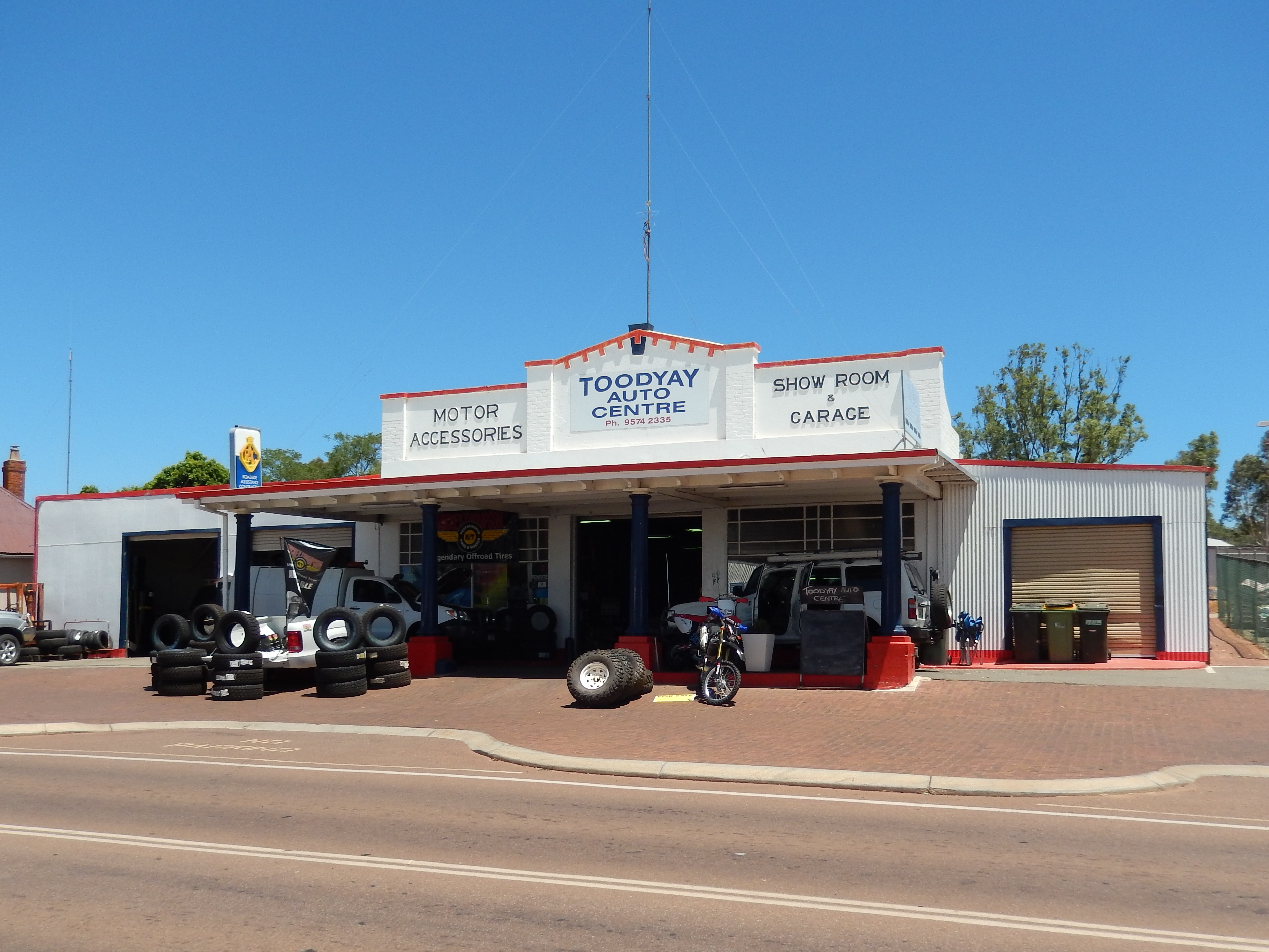 Built in 1925 on Stirling Terrace, Toodyay